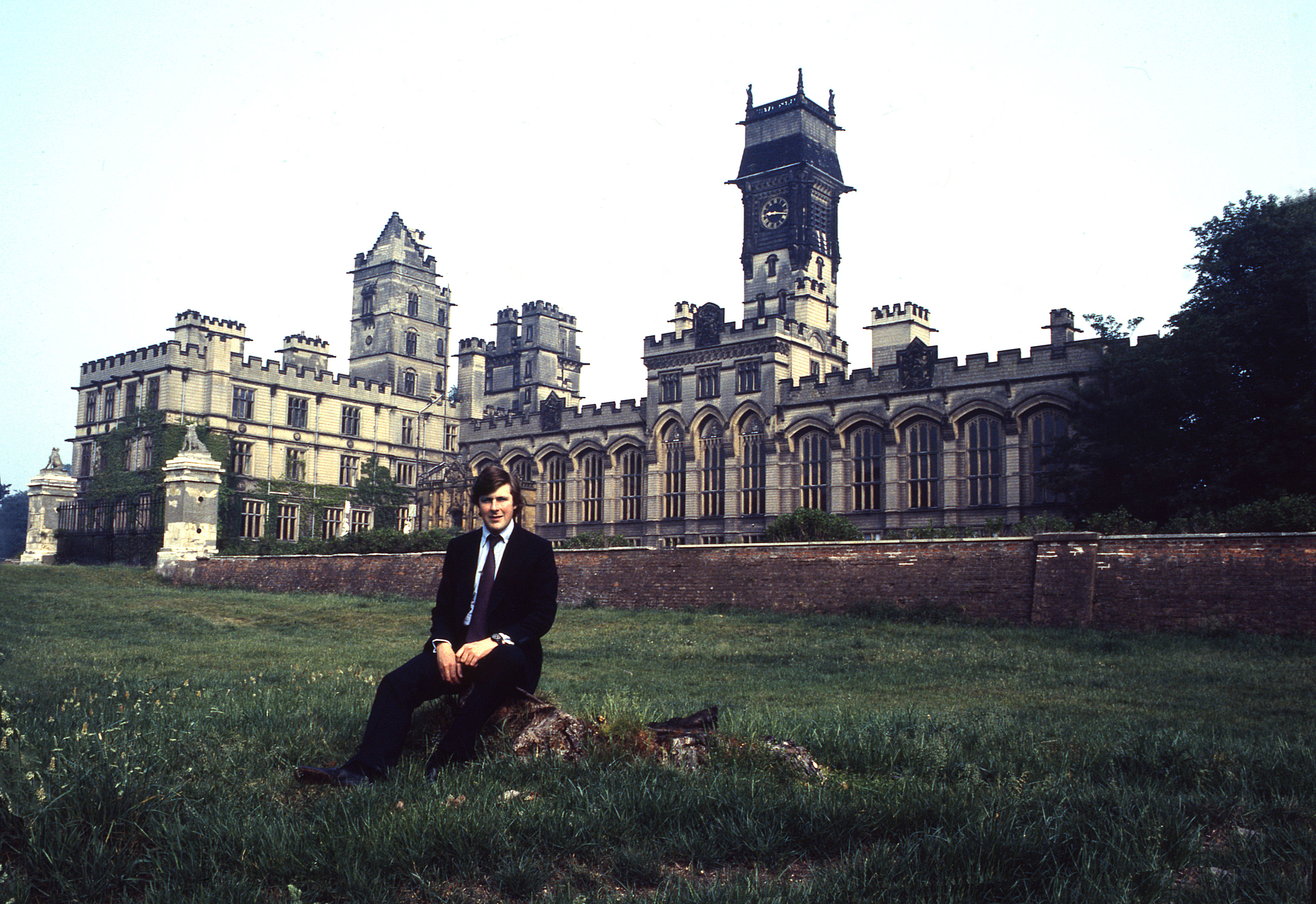 Edward Fitzalan-Howard, future 18th Duke of Norfolk outside Carlton Towers, North Yorkshire